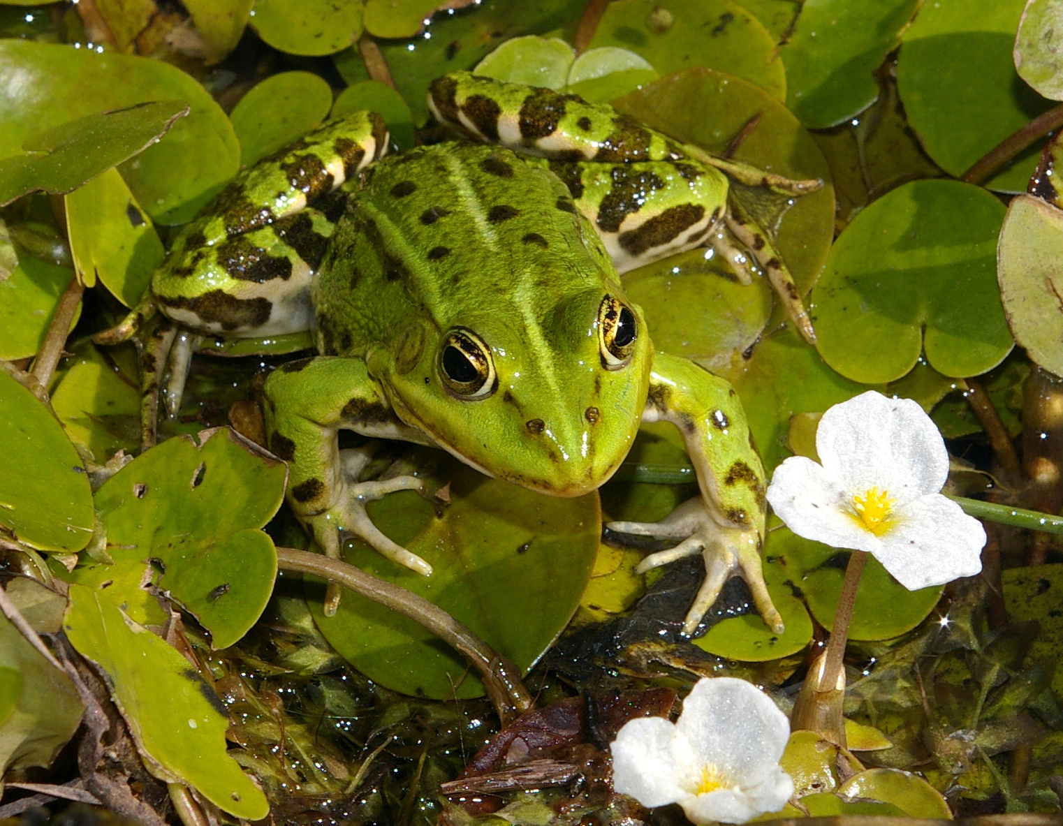 Adult specimen of the Edible Frog (Pelophylax "esculentus"); one of the hybrid forms of waterfrogs. The plant is Hydrocharis morsus-ranae.